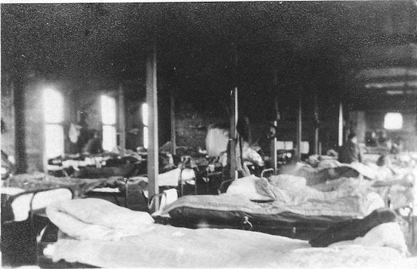 2014-0233m Date: 1918-1919 Location: Camp Funston, Kansas MLA filing: World War I-Kurt R. Galle Collection, Photos 1-210, No.186-198 Original Size: 6.4 x 4.1 cm Source: Louisa M. (Epp) Galle, 1989 Photographer: Notes: From Kurt Galle's "Camp Funston, April 26, 1918-March 24, 1919" album, p.32-186